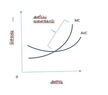 Perfectly competitive Firm's short run Supply corve